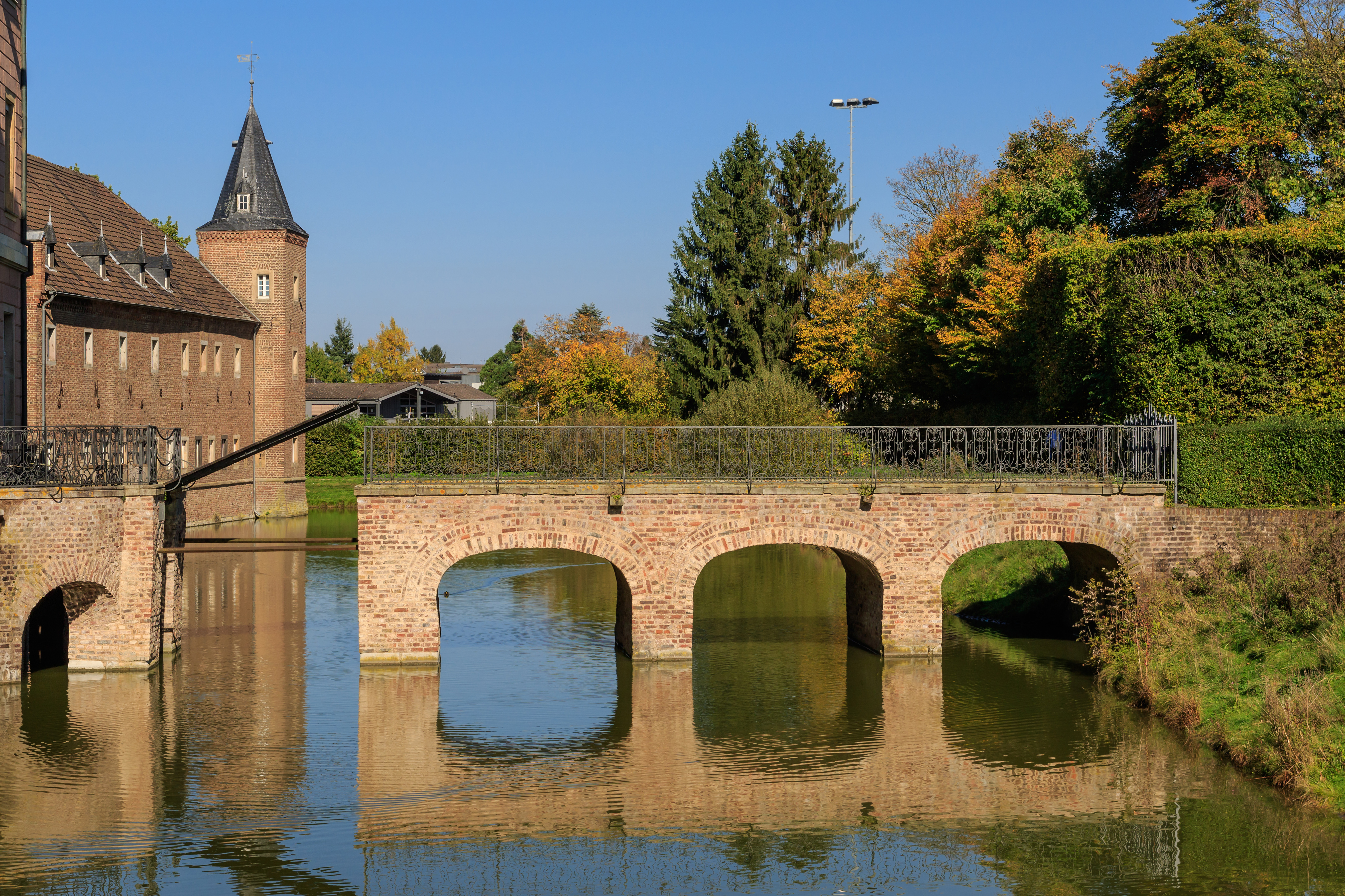 Gracht castle in Erftstadt, Rhein-Erft-Kreis (Germany)